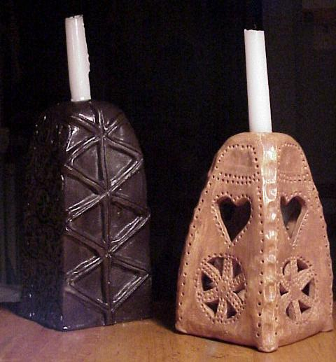 Photo of different New Julleuchters. I made this image and the Julleuchters in this image.